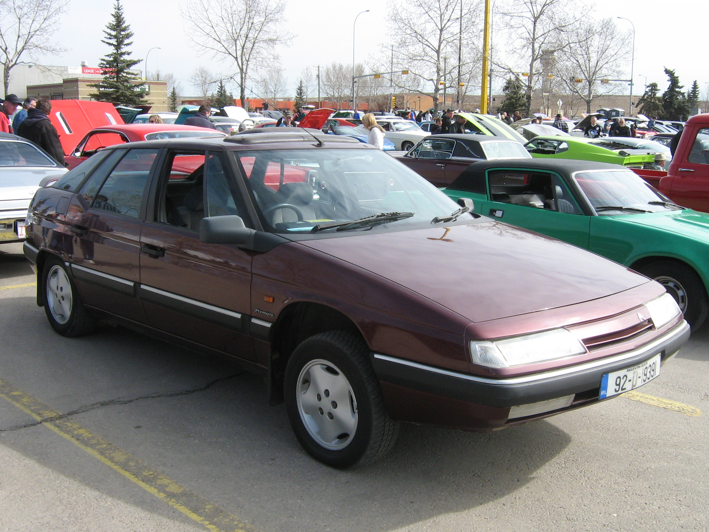 A 1990 Citroen XM that a friend of mine bought - imported at some point from Ireland and thus the right hand drive. The suspension in off road position.